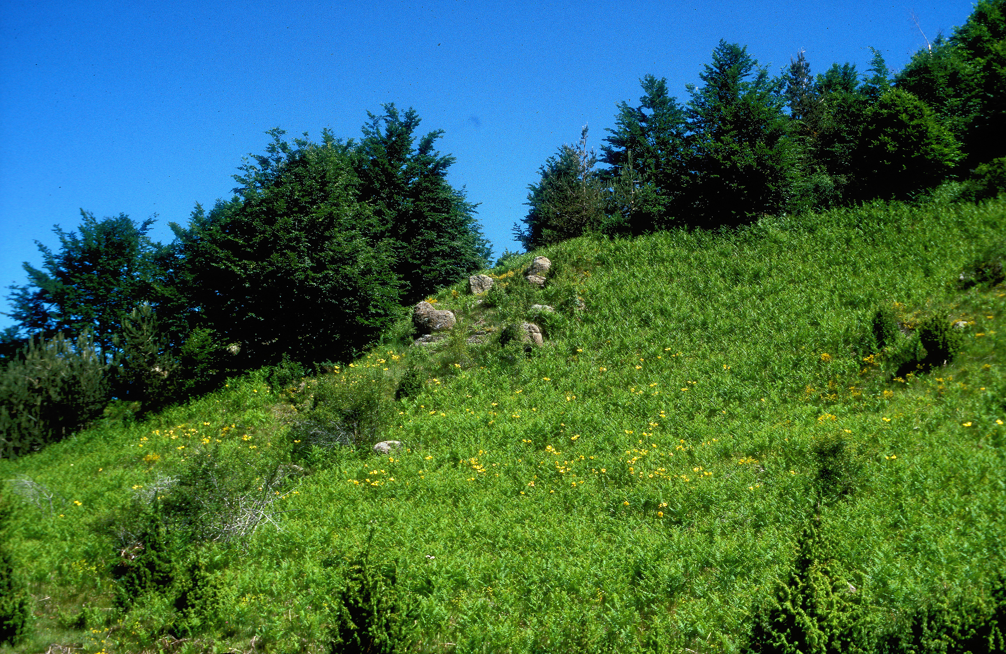 Lilium rhodopeum in habitat at Rhodope Mountains, Livaditis, Greece